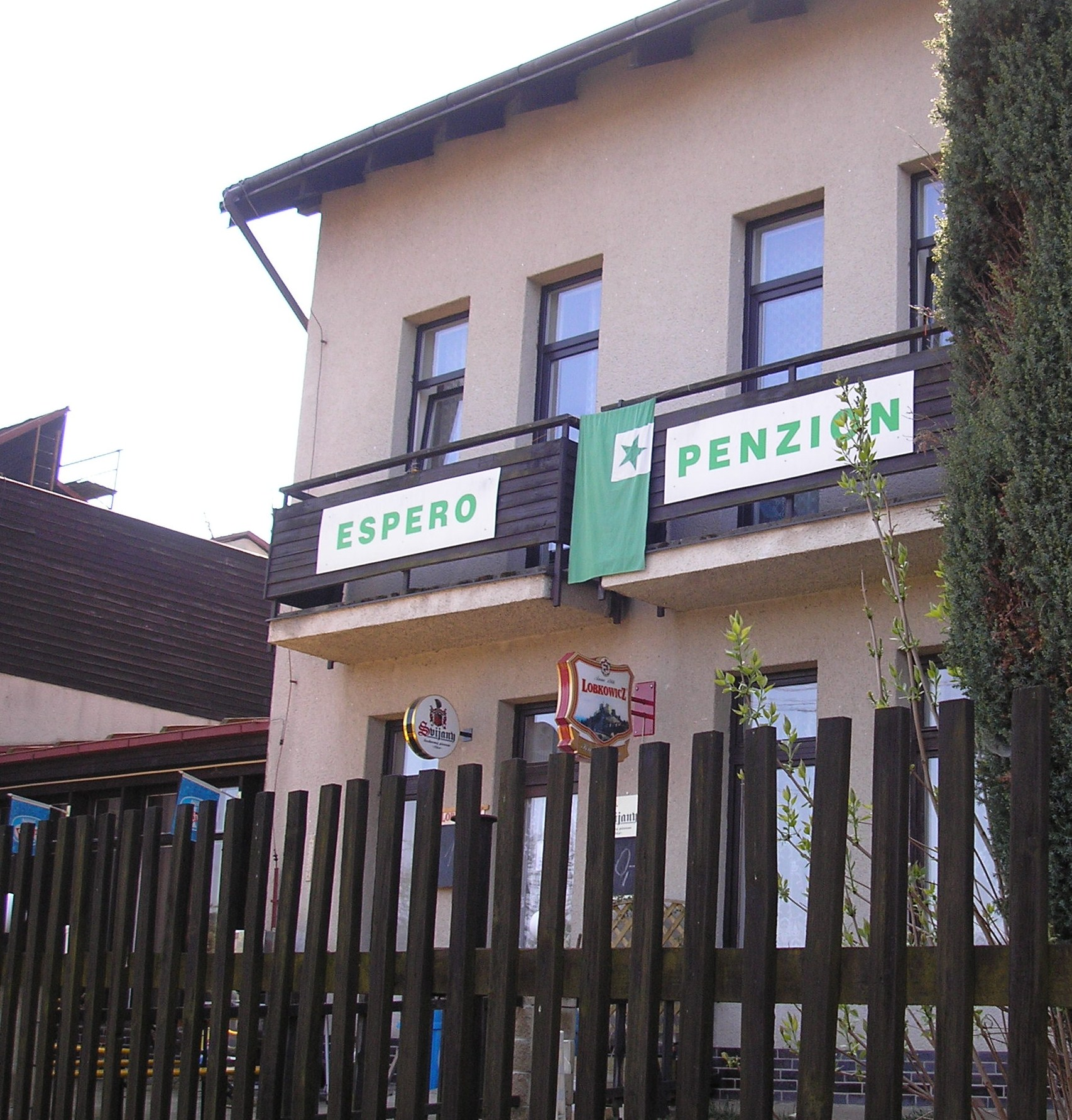 Skokovy-family hotel ESPERO